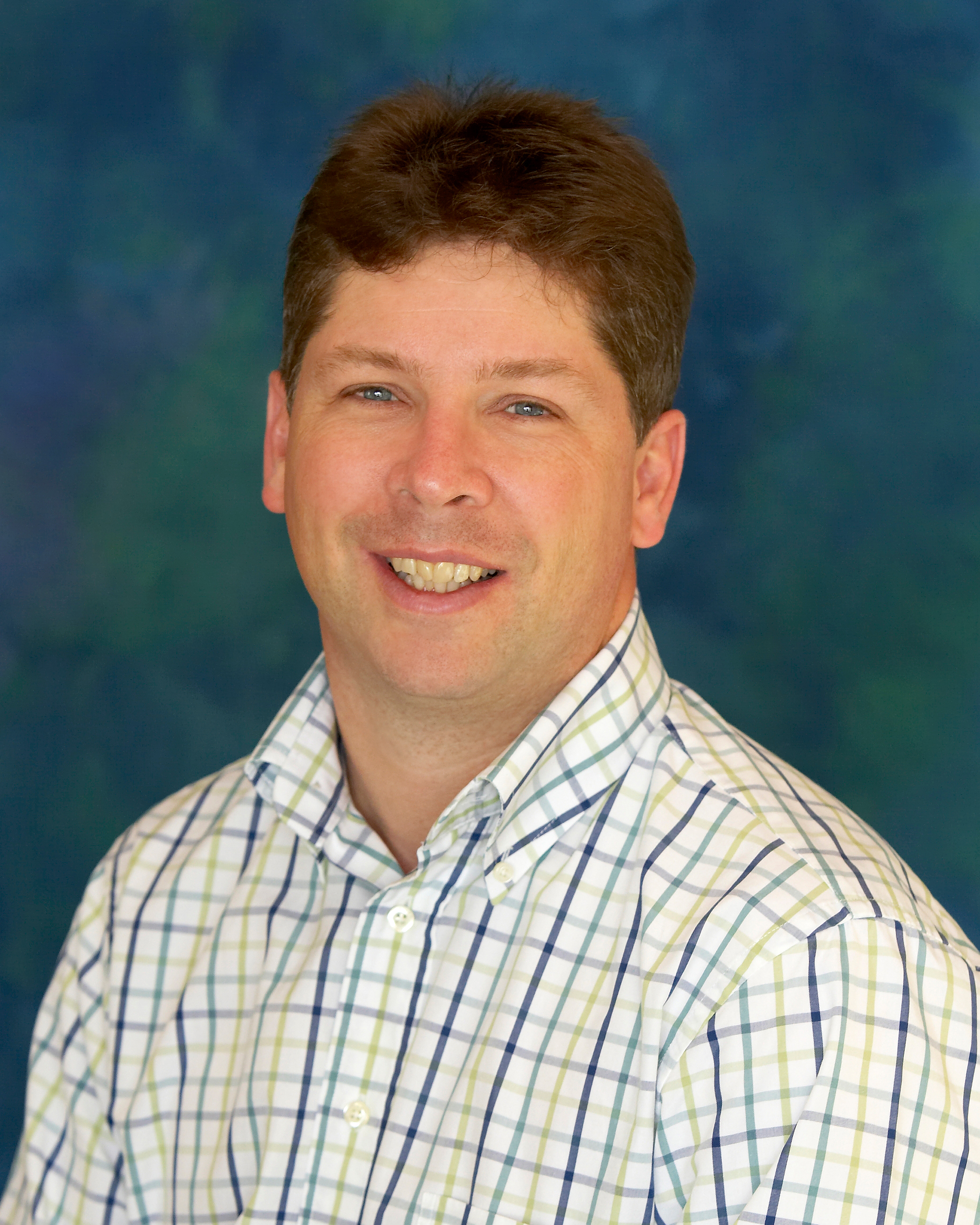 "Mug shot" of Danny Sullivan